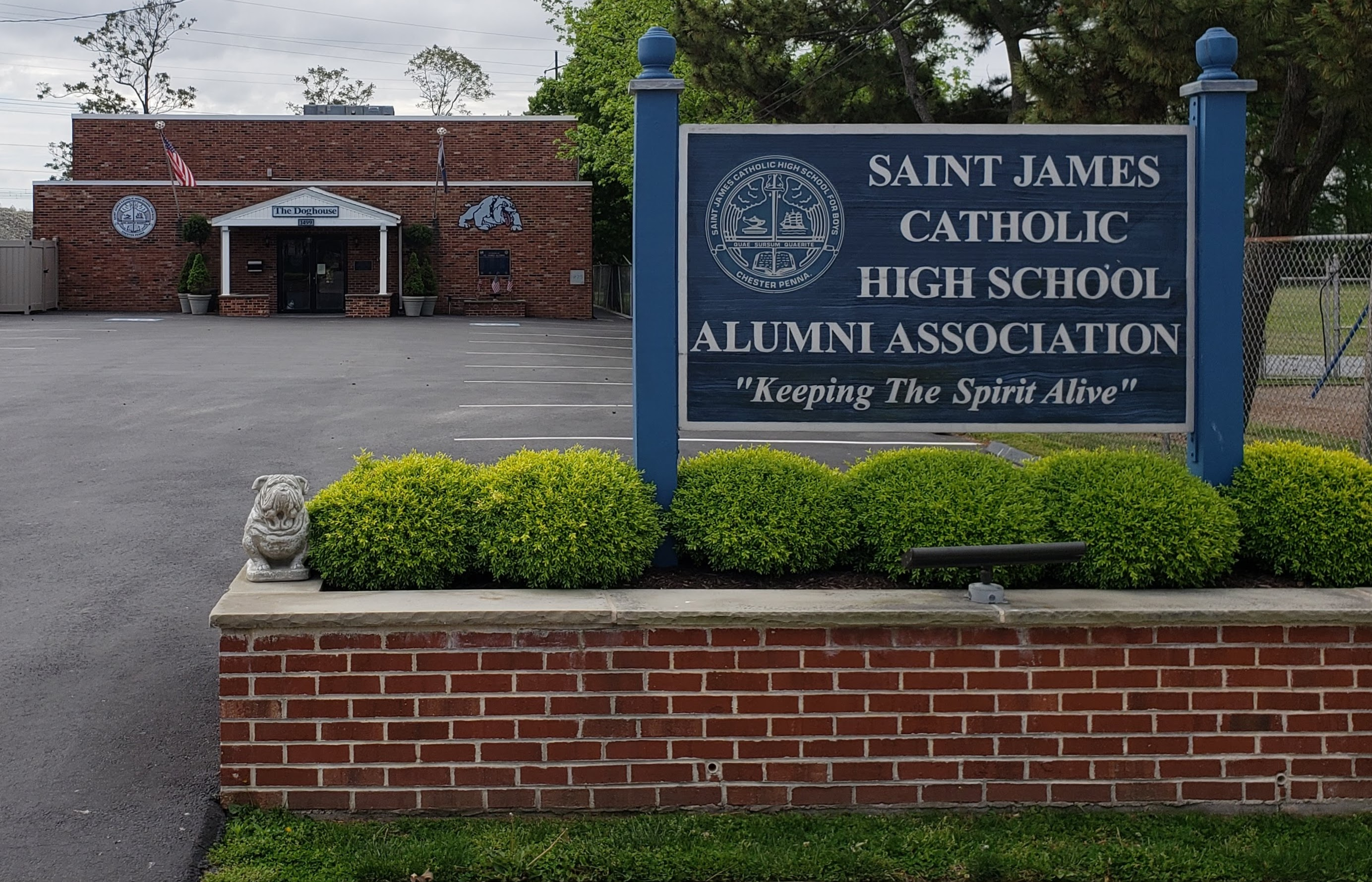 Saint James High School Alumni Association building in Eddystone, Pennsylvania. Photo taken May 2020.